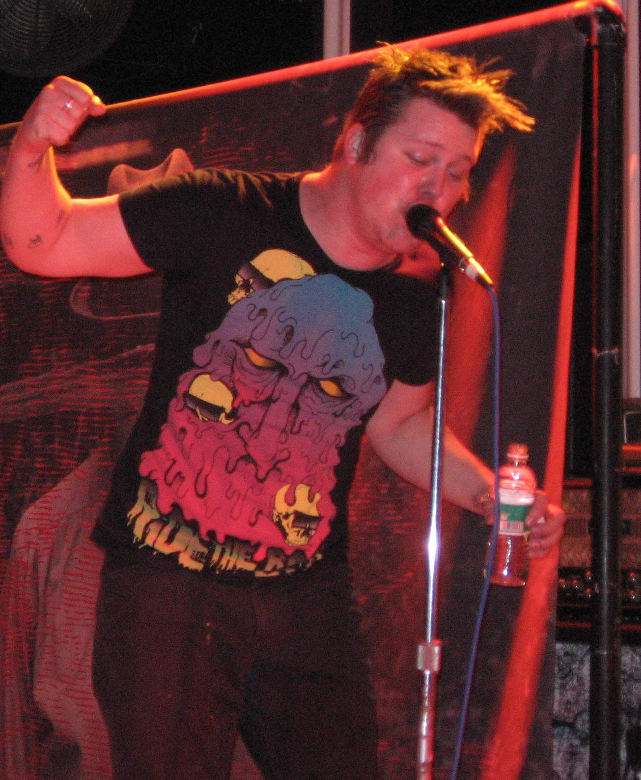 Josh Scogin live at Toad's Place in New Haven, Connecticut